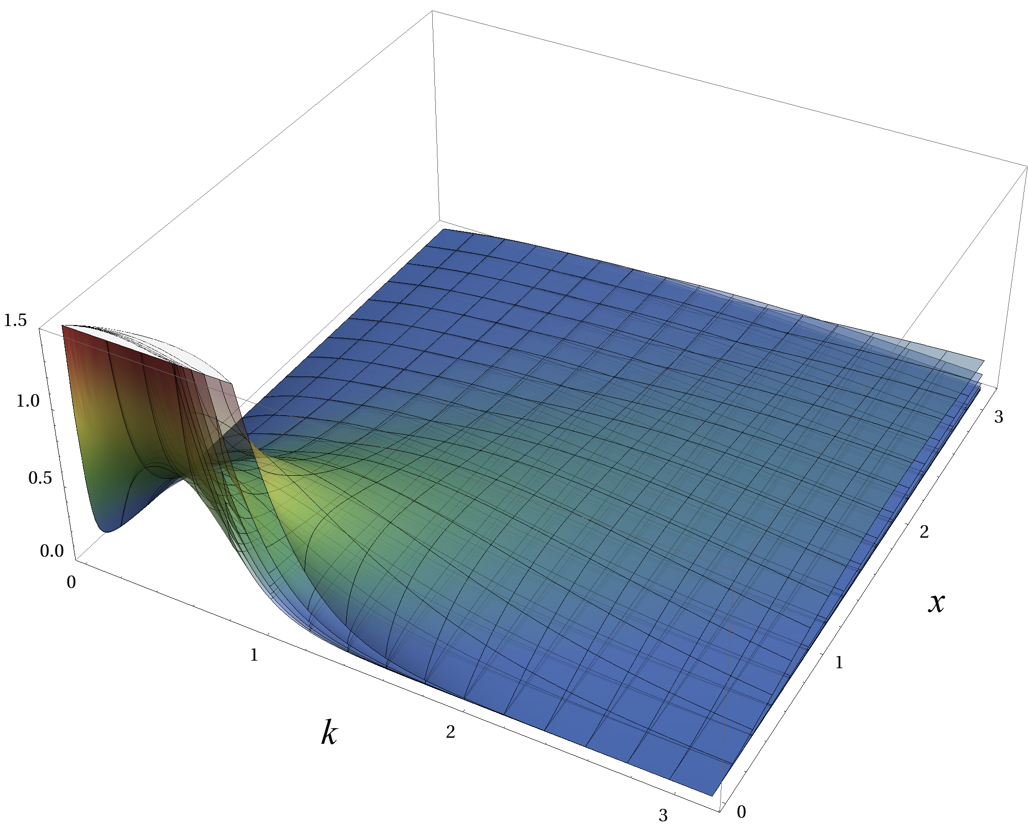 A 3D Representation of a Gamma Probability Distribution. Each Layer is for a different value of θ {\displaystyle \theta } which is equal to 1,2,3,4,5 and 6. See also File:Gamma-PDF-3D-by-k.png for each layer in its own image.